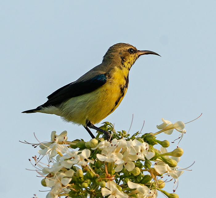 Purple Sunbird male in Eclipse plumage